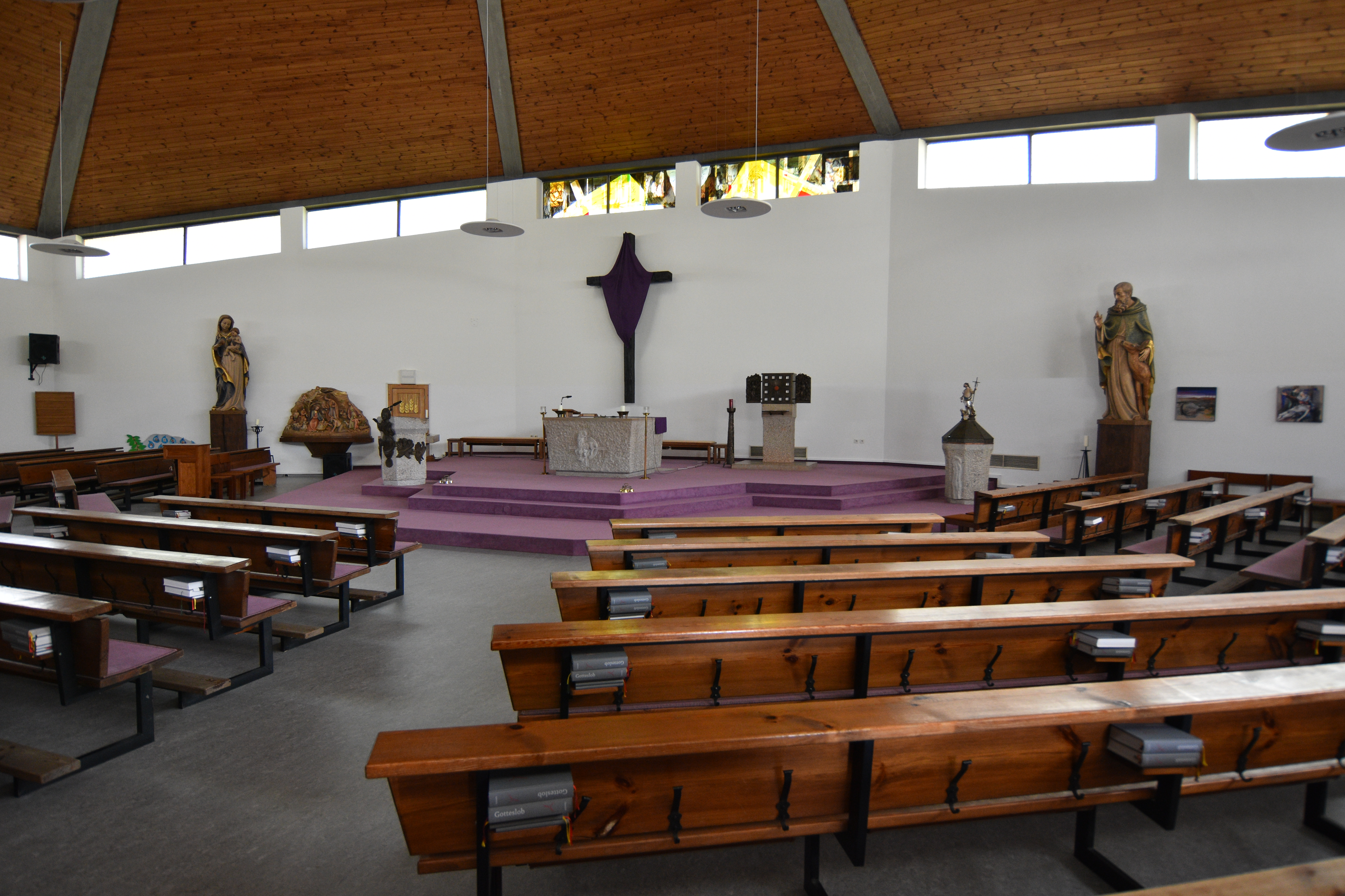 Church Pilgersdorf - Interior